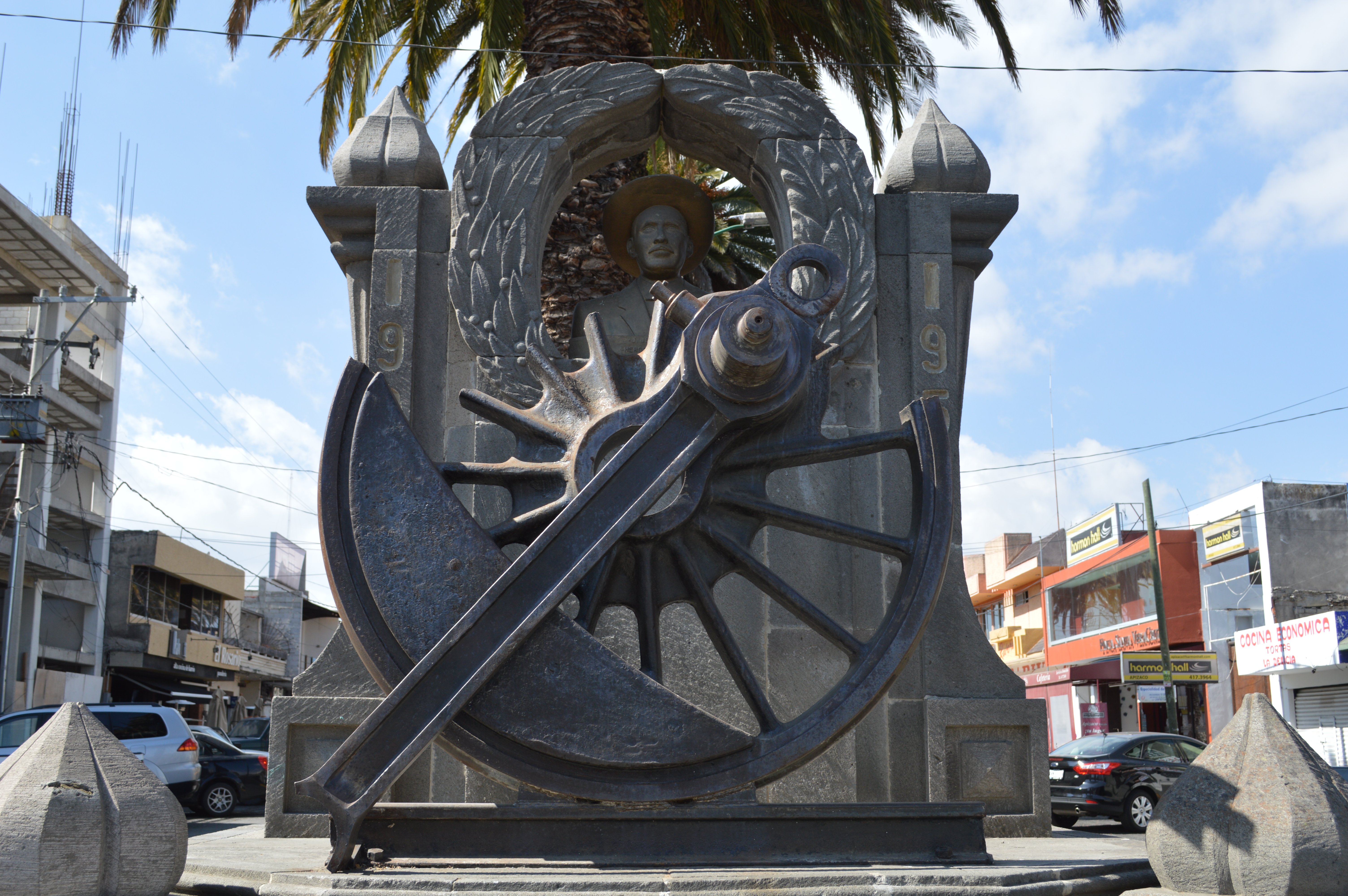 Monument to railroader Jesus Garcia Corona in front of the former railroad station in Apizaco, Tlaxcala, Mexico